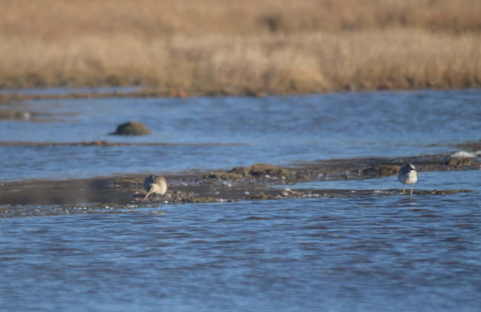 Photo taken in Spurwink Marsh. Two birds are visible: a Hudsonian godwit (left) and a greater yellowlegs (right).